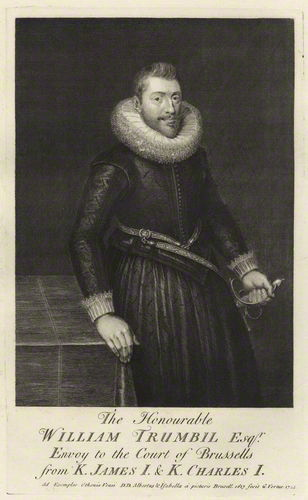 Portrait of William Trumbull (died 1635), English diplomat, administrator and politician.